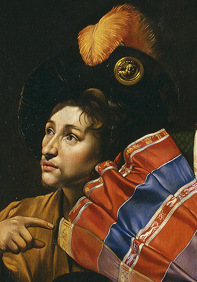 detail: Possibly Self-portrait